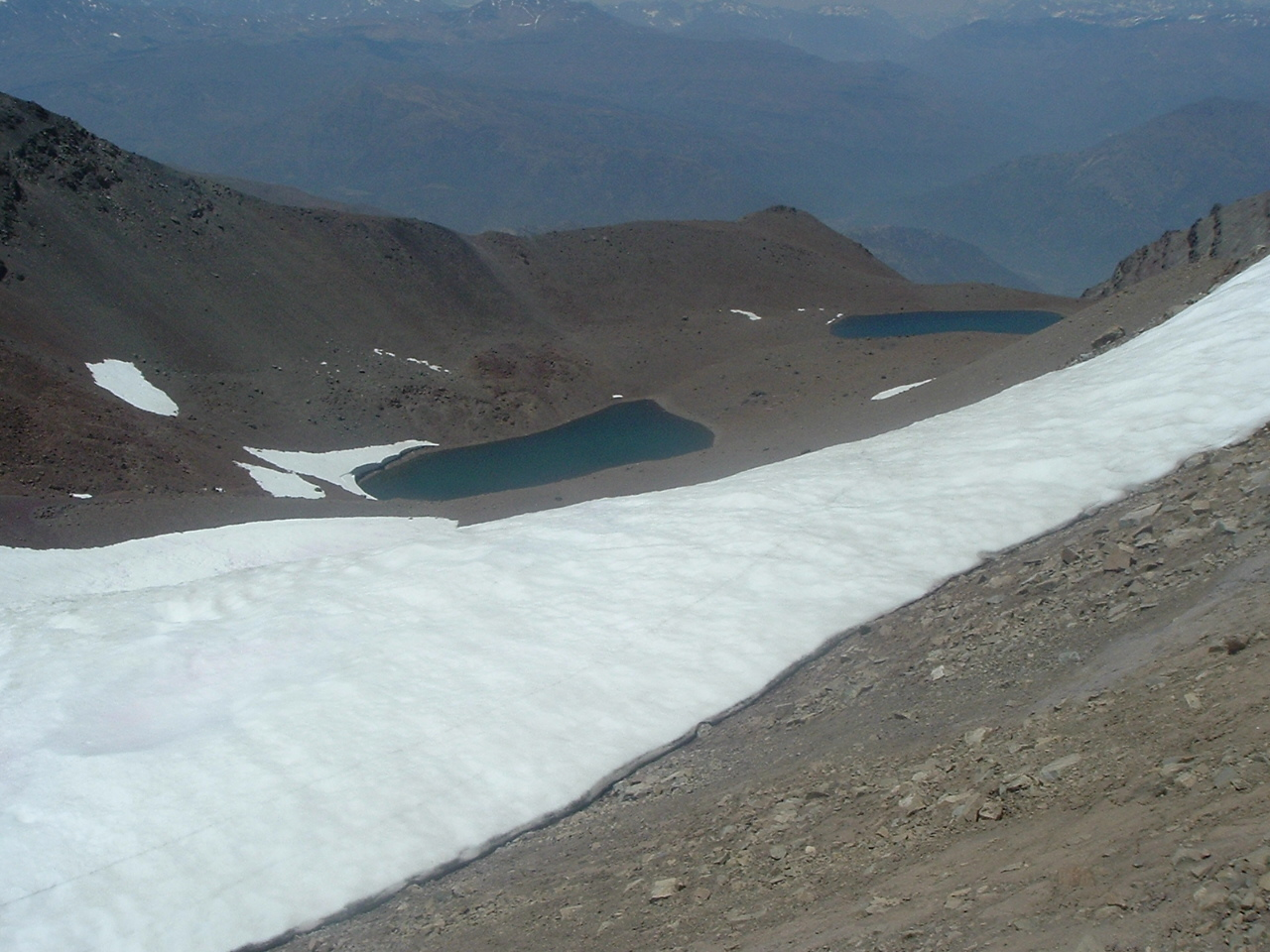 Los Azules in the summit of Cerro San Ramón